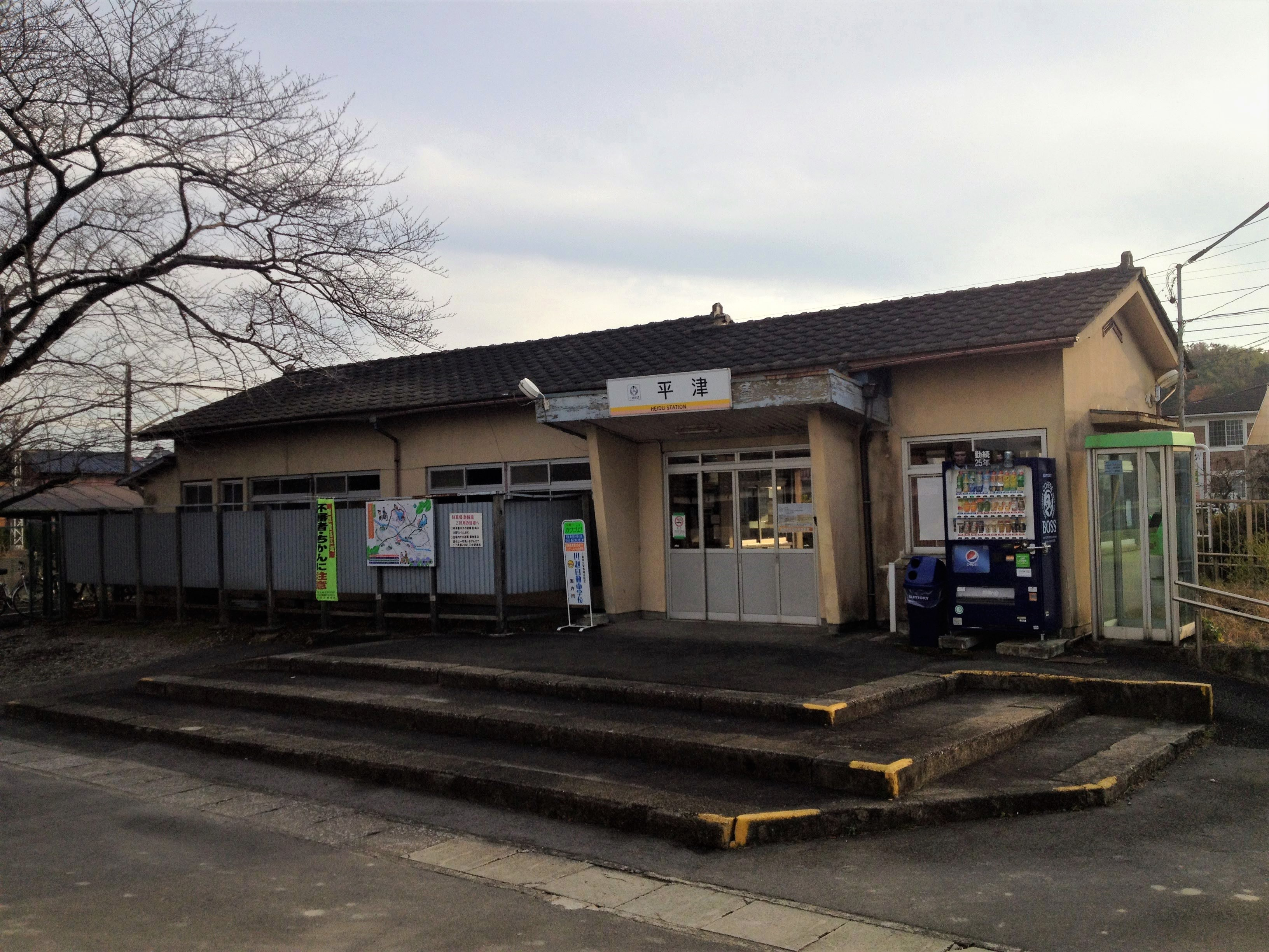 Heizu Station in Yokkaichi, Mie Prefecture, Japan